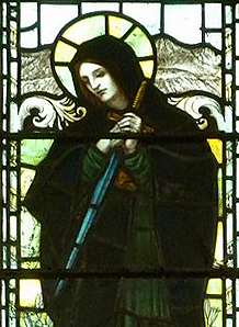 Stained glass window showing Saint Eluned (Alud; at Brecon church. Based on: File:Eluned a Brychan.jpg